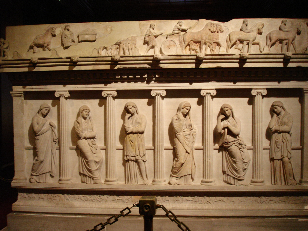 Istanbul Archaeological Museum. The so called "Sarcophagus of the mourning women". From the Royal necropolis of Sidon, 4th century b.C. - Picture by: Giovanni Dall'Orto may 28 2006.